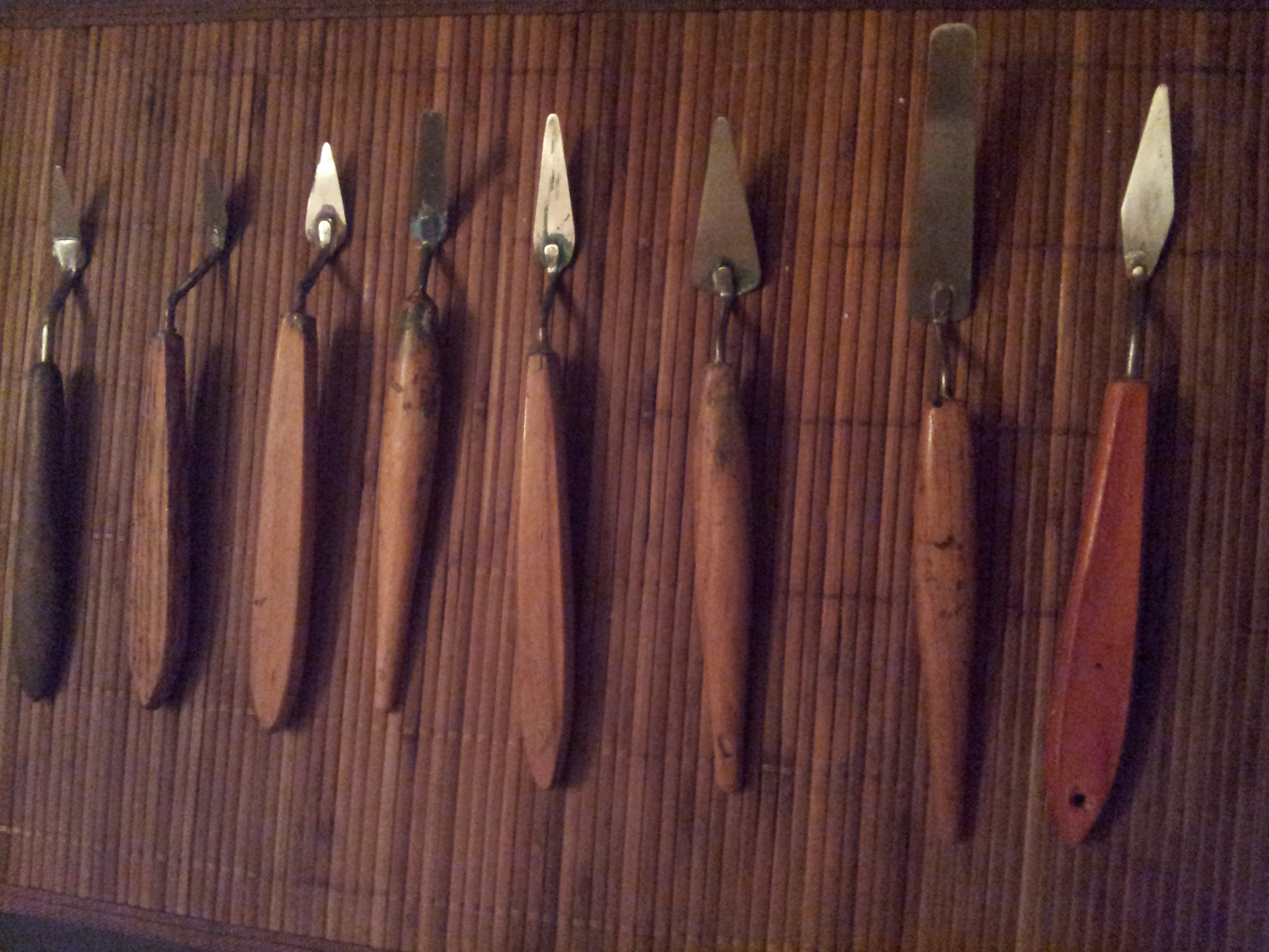 The painting knives used by the Russian painter Category:Henzel Hakobyan.